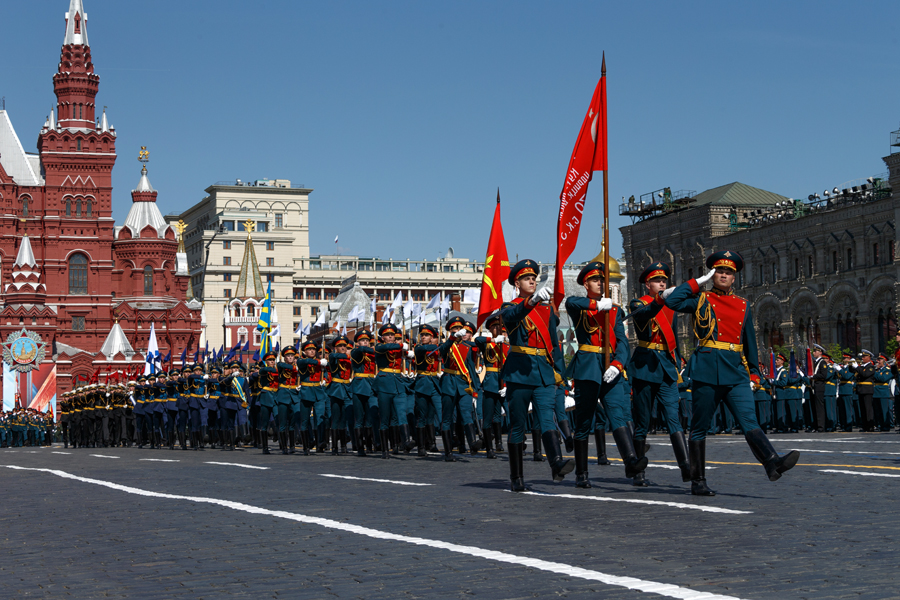 Victory Day military parade on Red Square 2016-05-09